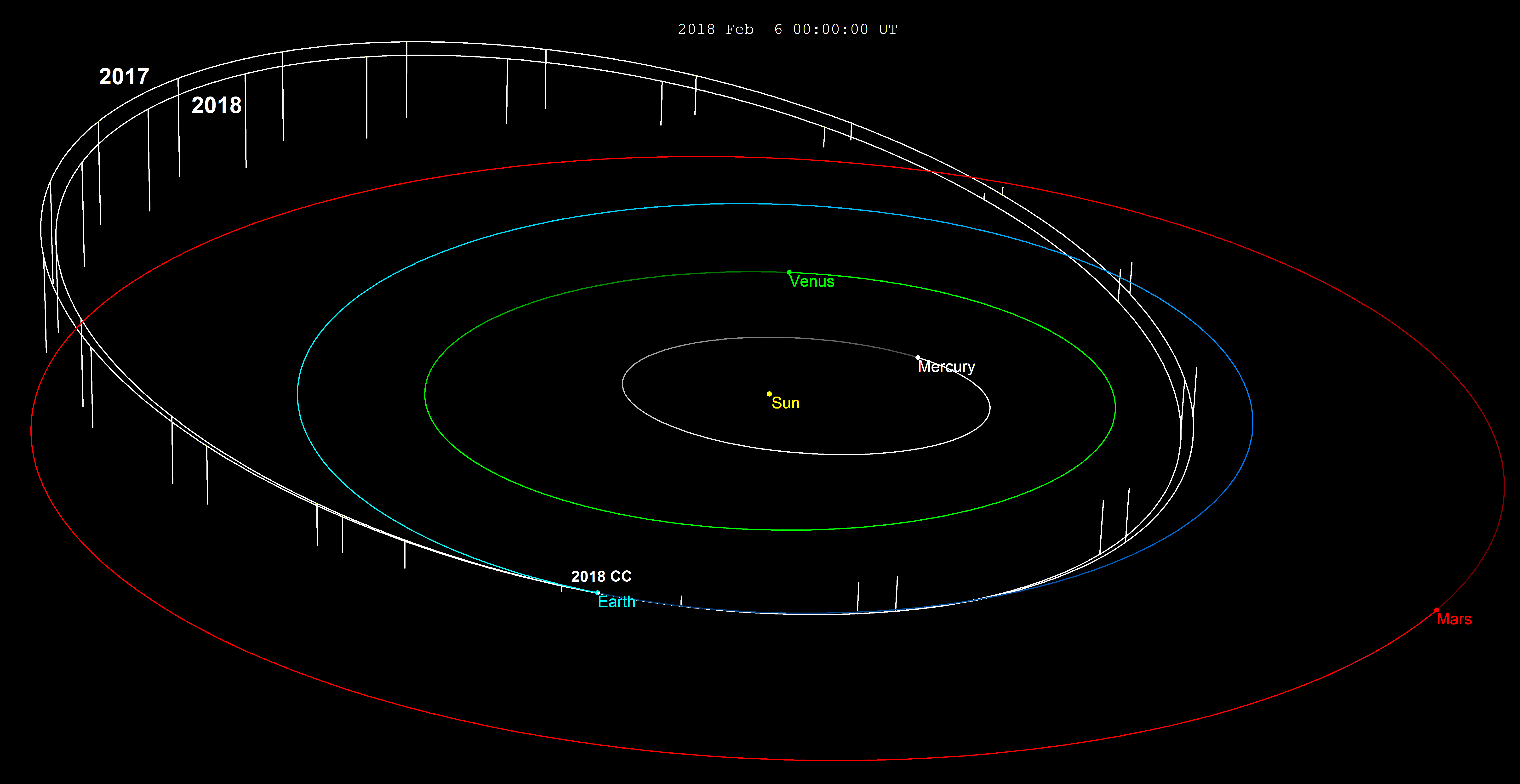 en:2018 CC near earth asteroid path